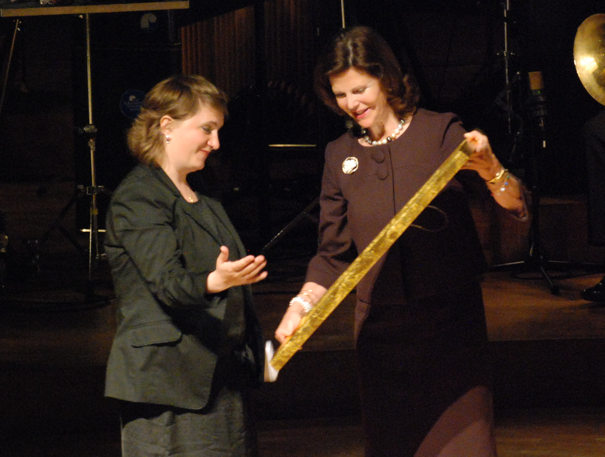 Award ceremony of the Astrid Lindgren Memorial Award 2010: Kitty Crowther gets the prize by Queen Silvia of Sweden